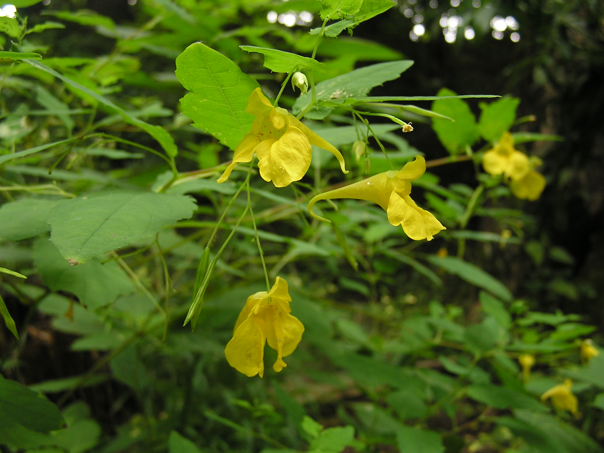 Bloom of a Touch-me-not Balsam